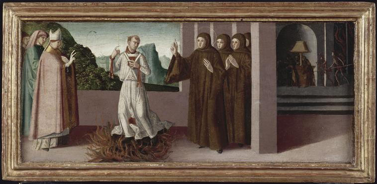 Peter Igneus crossing the flames